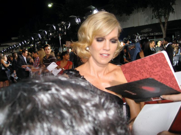 American actress Jennie Garth at the Twilight premiere. November 2008